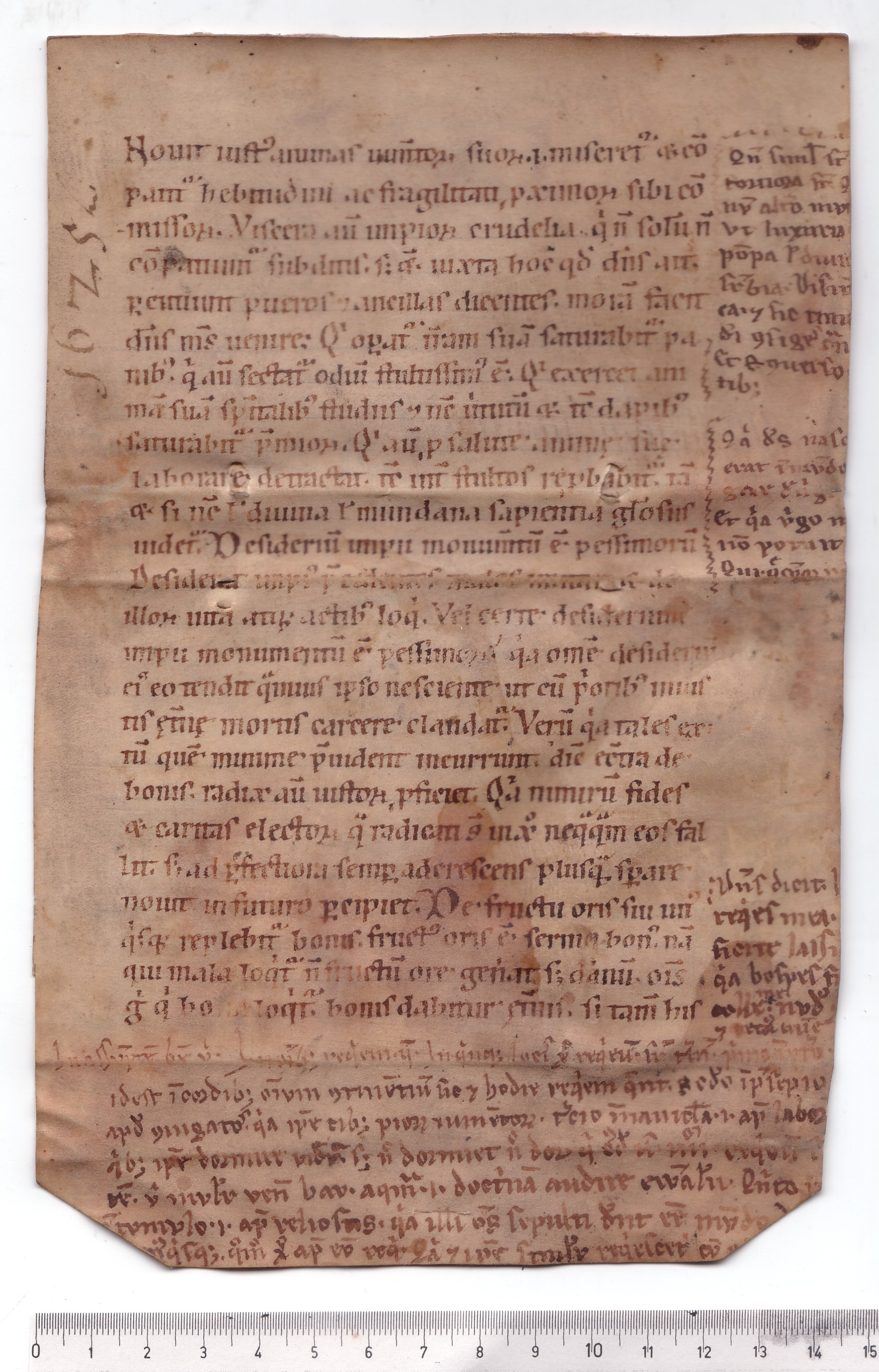 Fragment of the Venerable Bede's Commentary on Proverbia Salomonis, copy of the mid 12th century